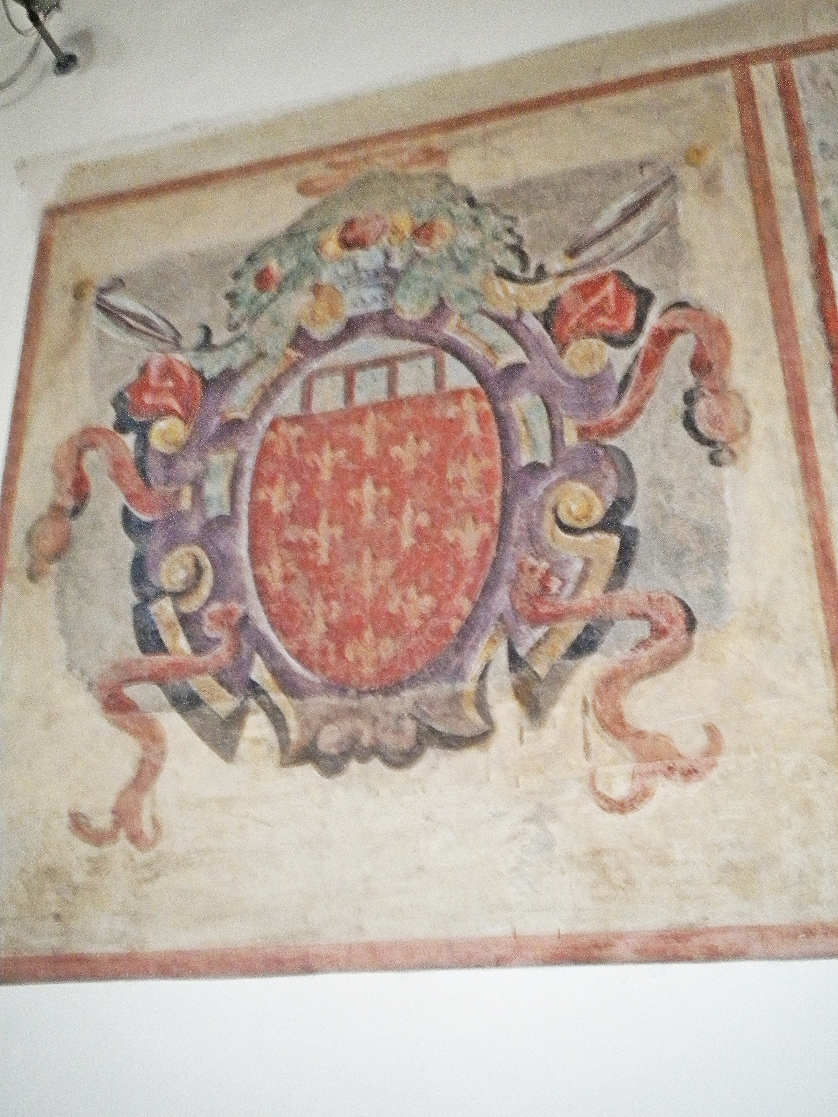 coat of arm